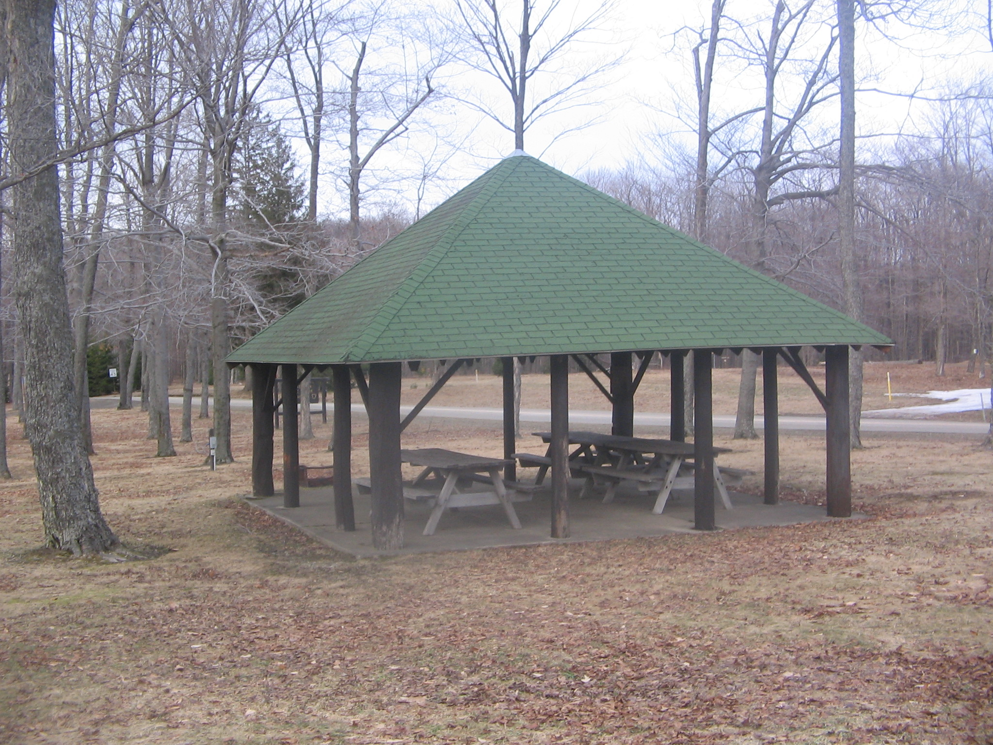 Civilian Conservation Corps-built picnic shelter at Patterson State Park, Potter County, Pennsylvania, USA. This is the smaller shelter, nearer PA Route 44.